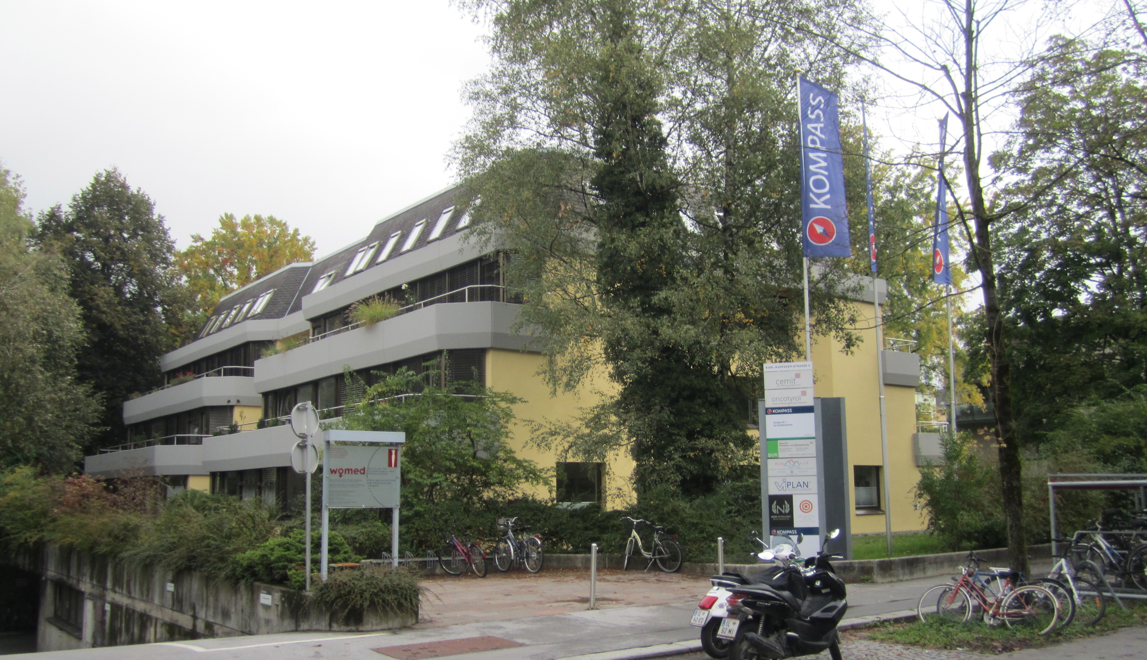 Office building of Kompass Karten GmbH (a map publishing company) in Innsbruck, Austria.